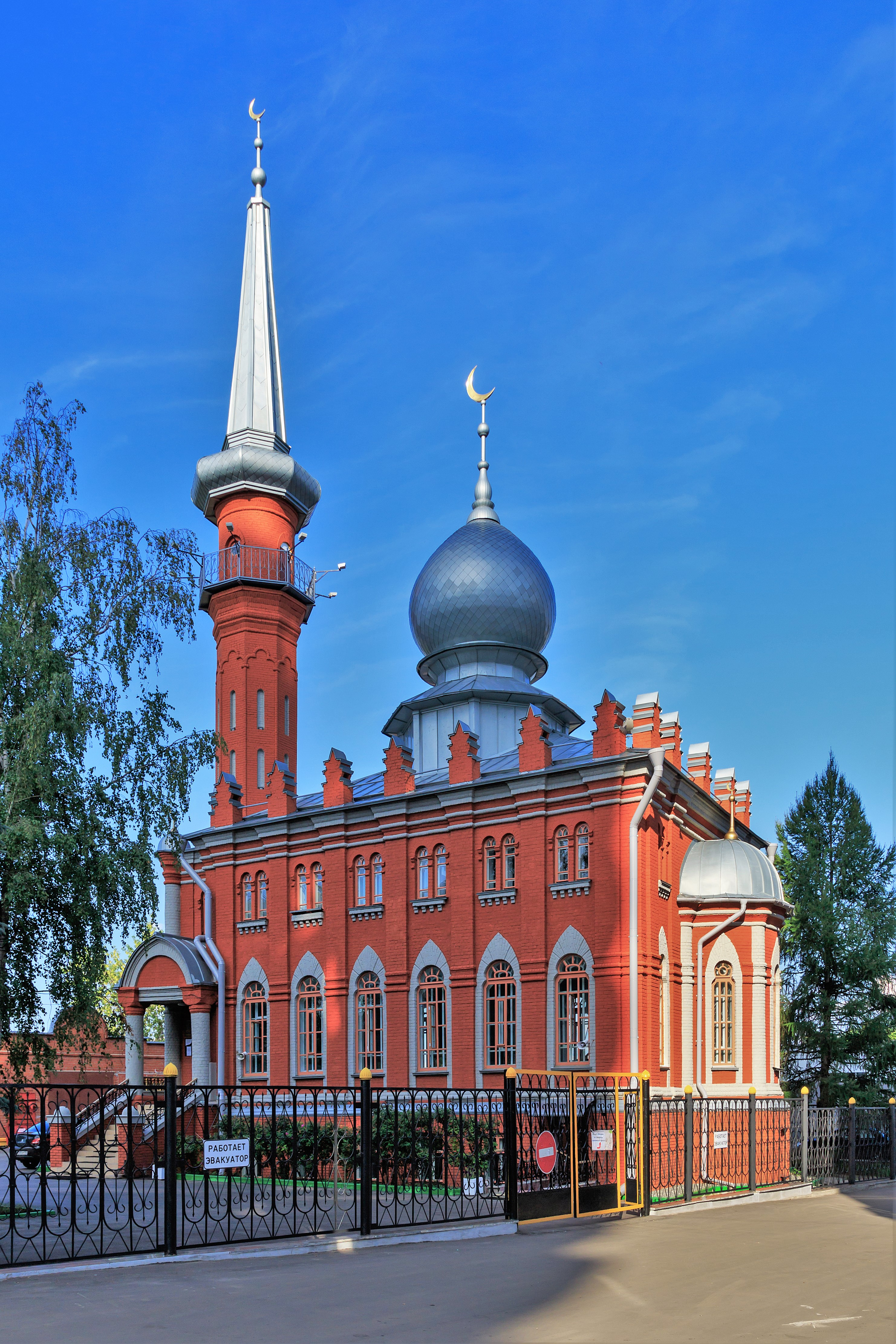 Cathedral Mosque in Nizhny Novgorod, Russia